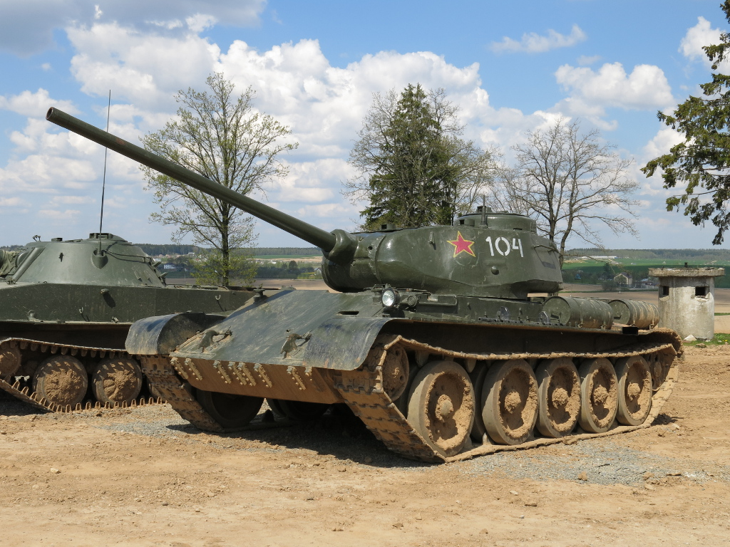 roadworthy T-44